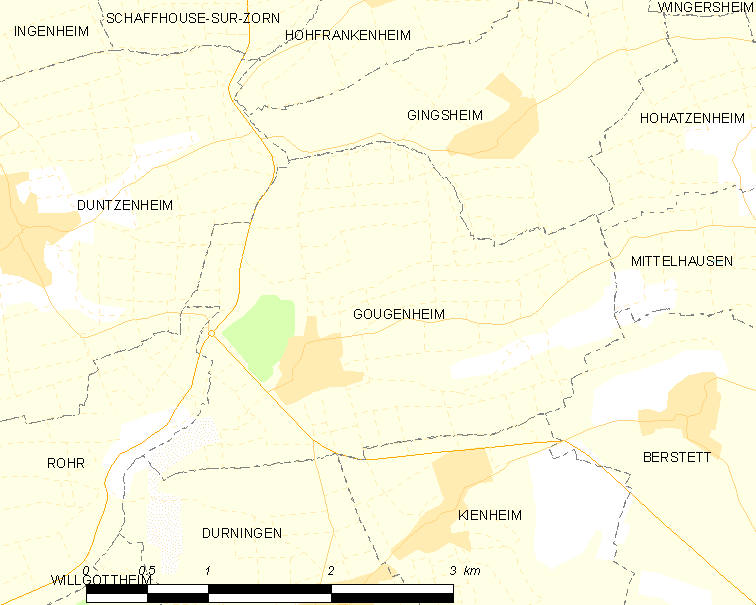 Map of French municipality